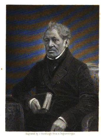 Portrait of Christopher Anderson (1782–1852), Scottish Baptist preacher.